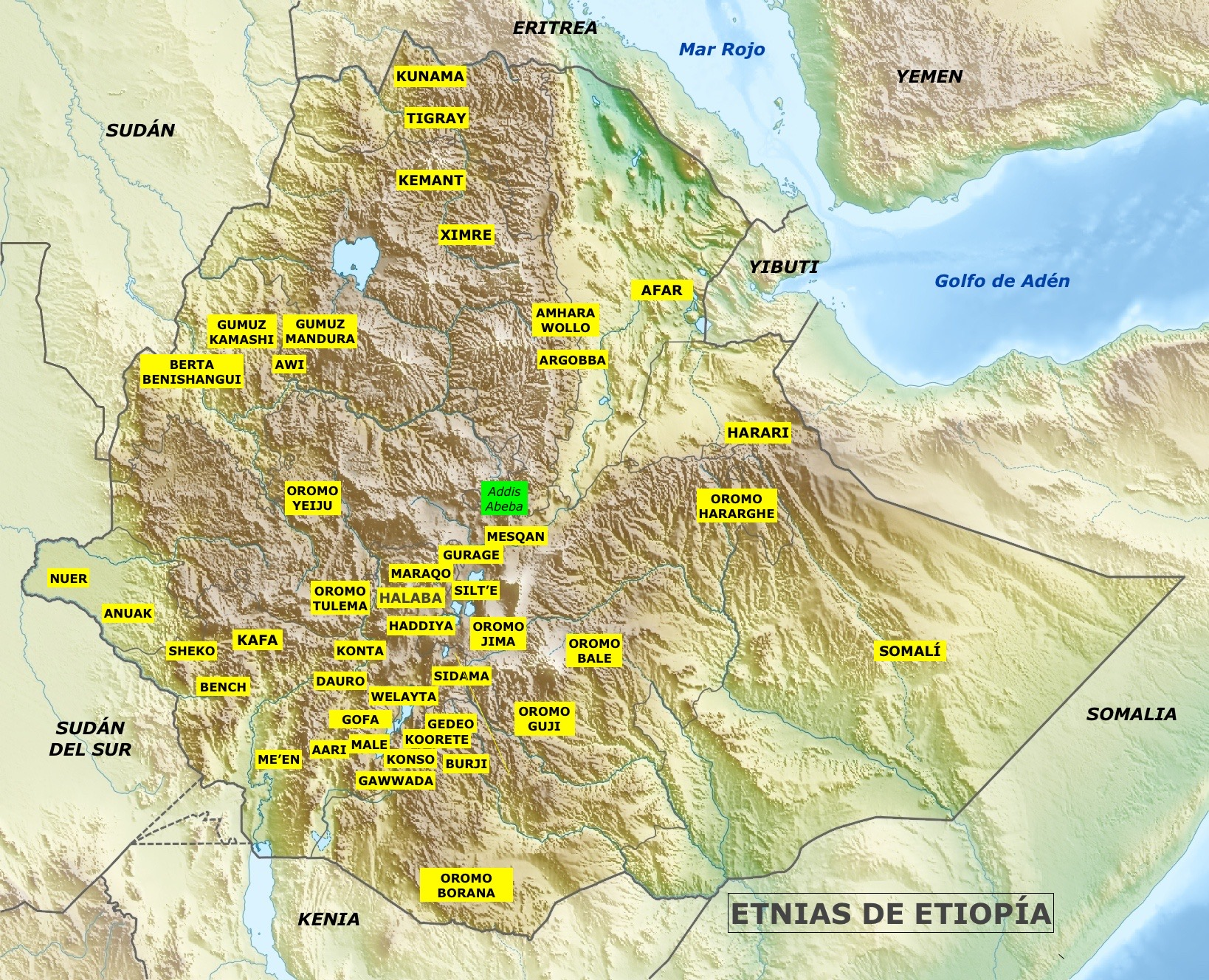 Ethnic groups in Ethiopia Map